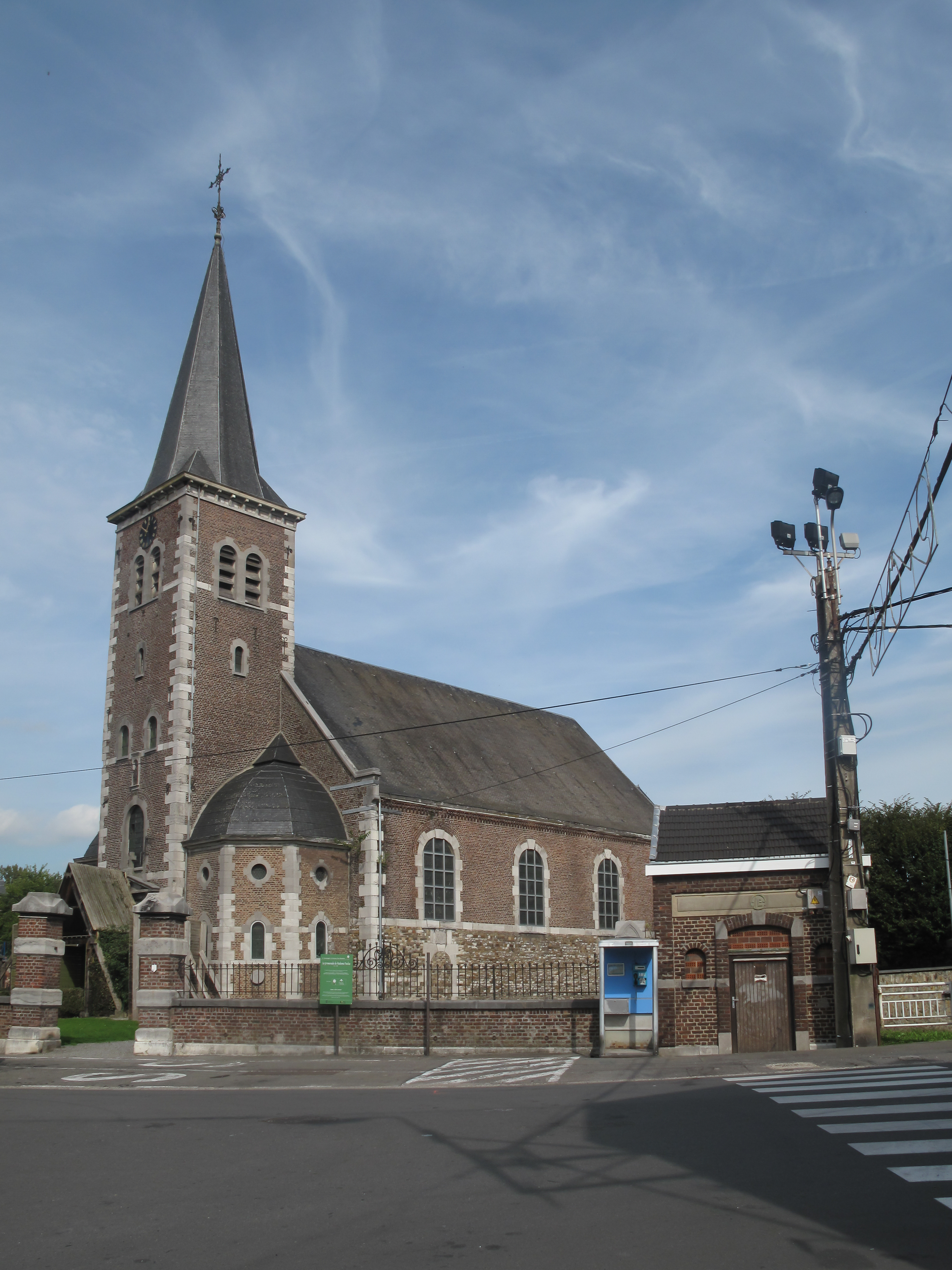 Soumagne, church: Sint Lambertuskerk